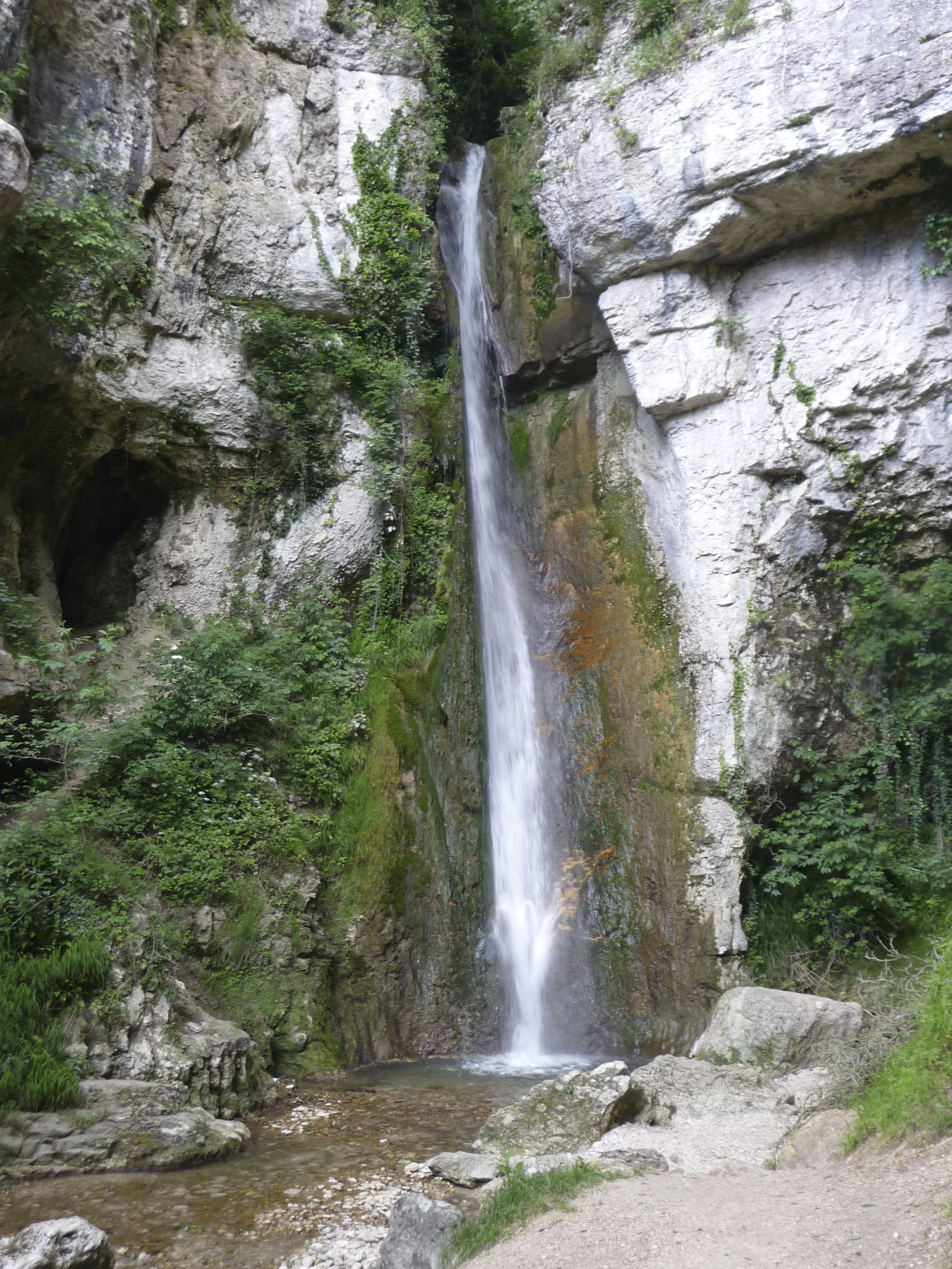 Natural park of the Cascate di Molina (Molina Falls) in Fumane, Verona, Italy.